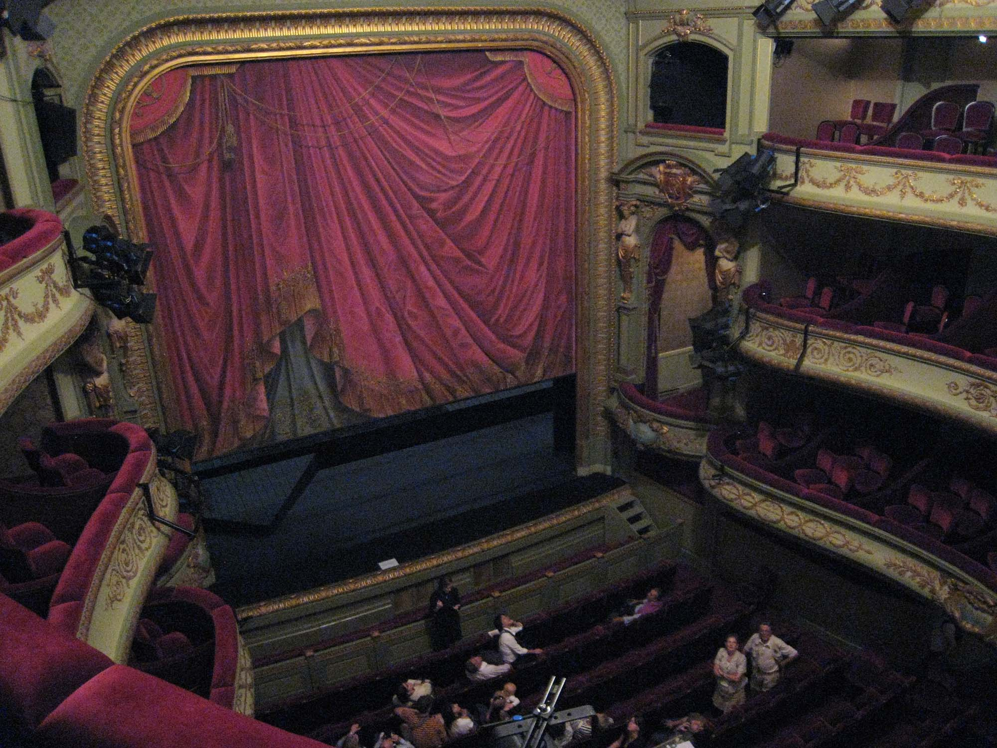 The stage and auditorium of the Théâtre Royal du Parc, Brussels